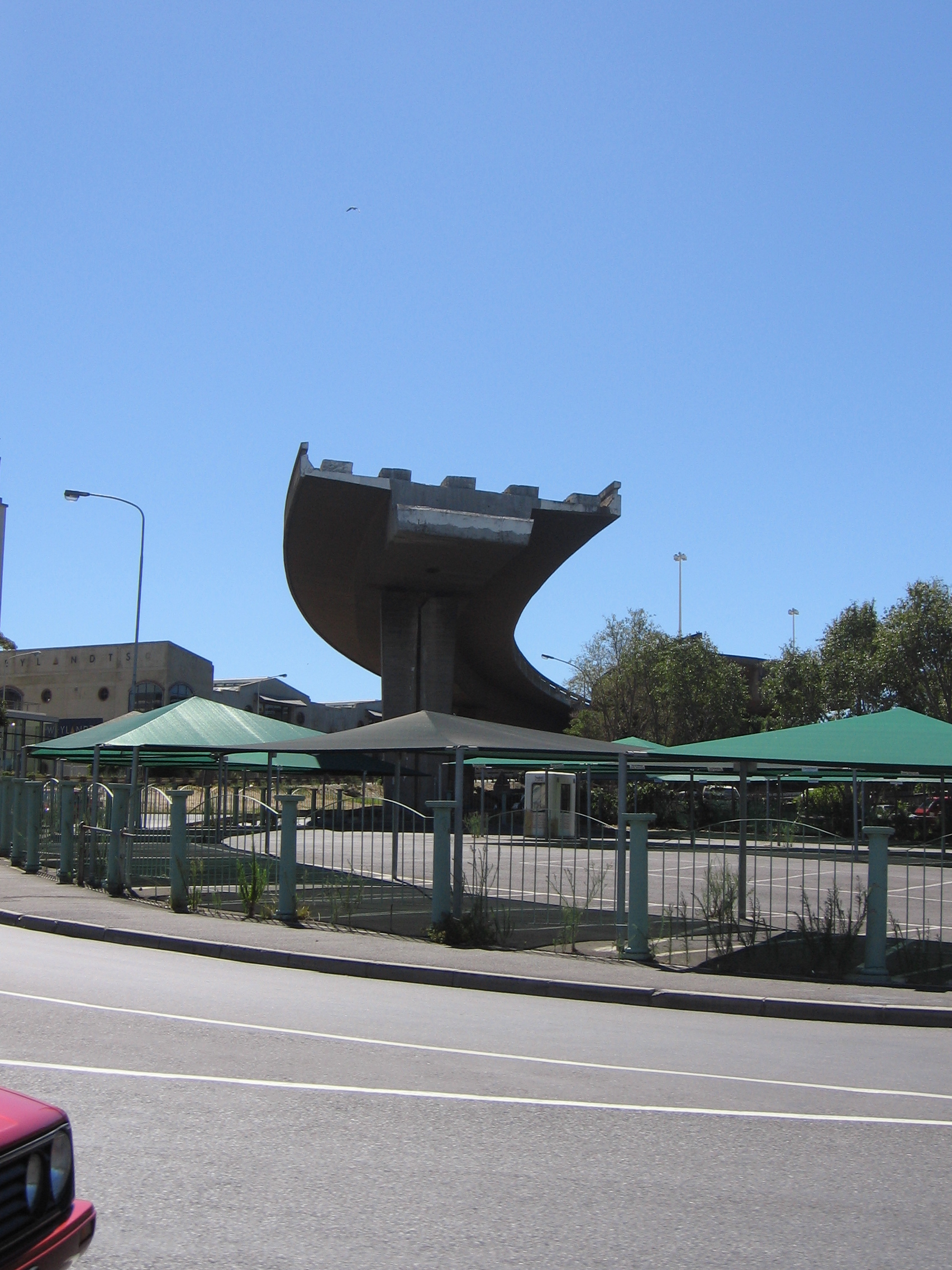 Unfinished bridge Cape Town looking east